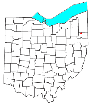 Locator map of the unincorporated community of North Jackson in Mahoning County, Ohio, United States.